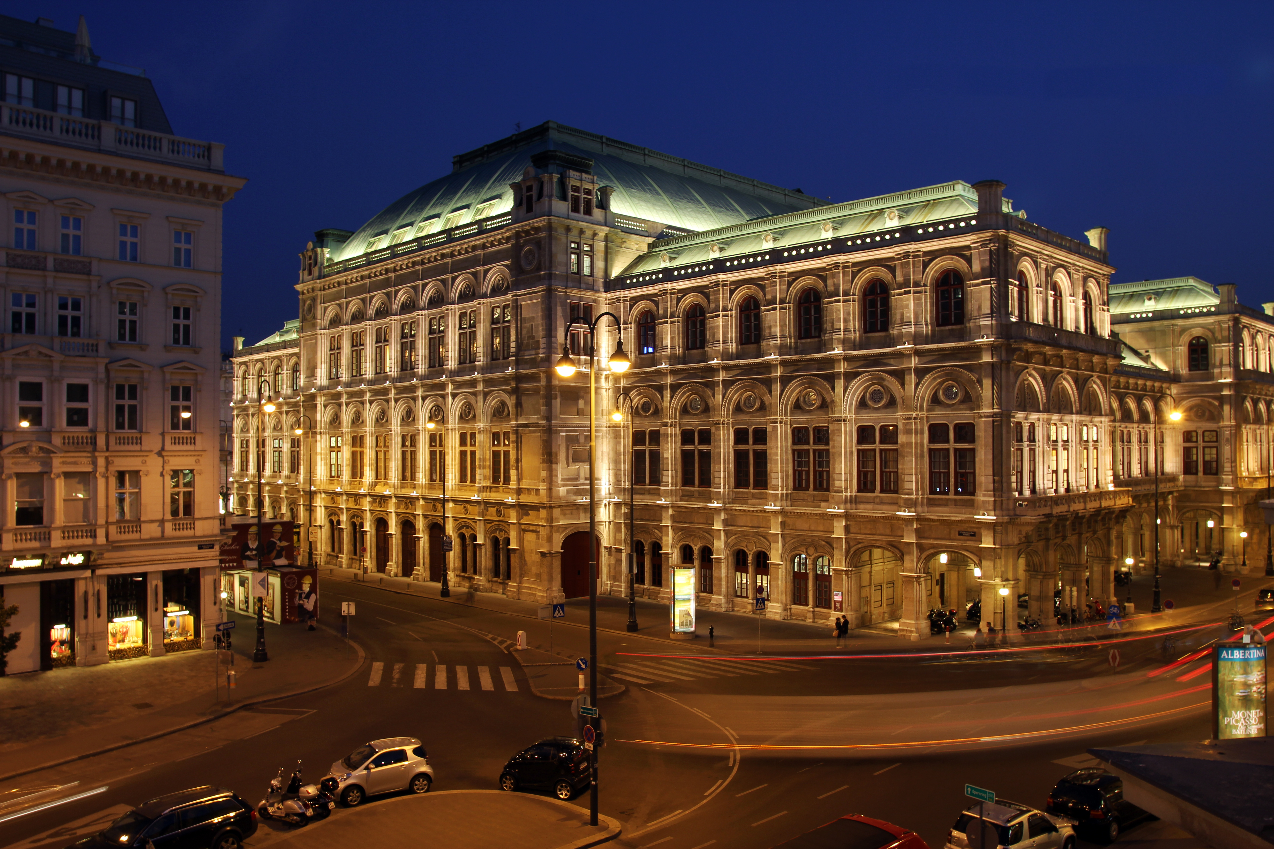 Vienna State Opera (Wiener Staatsoper)